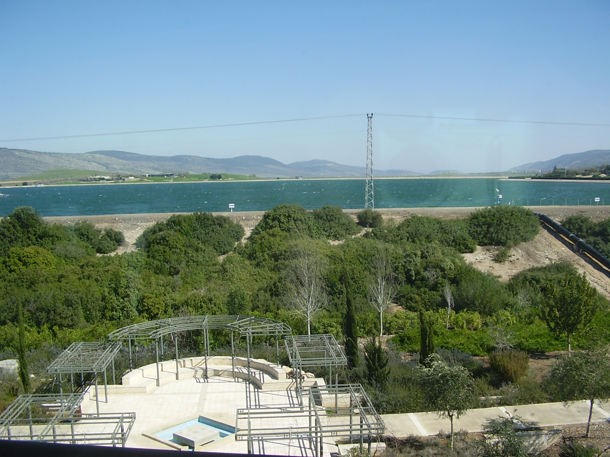 Eshkol Lake in lower galilee